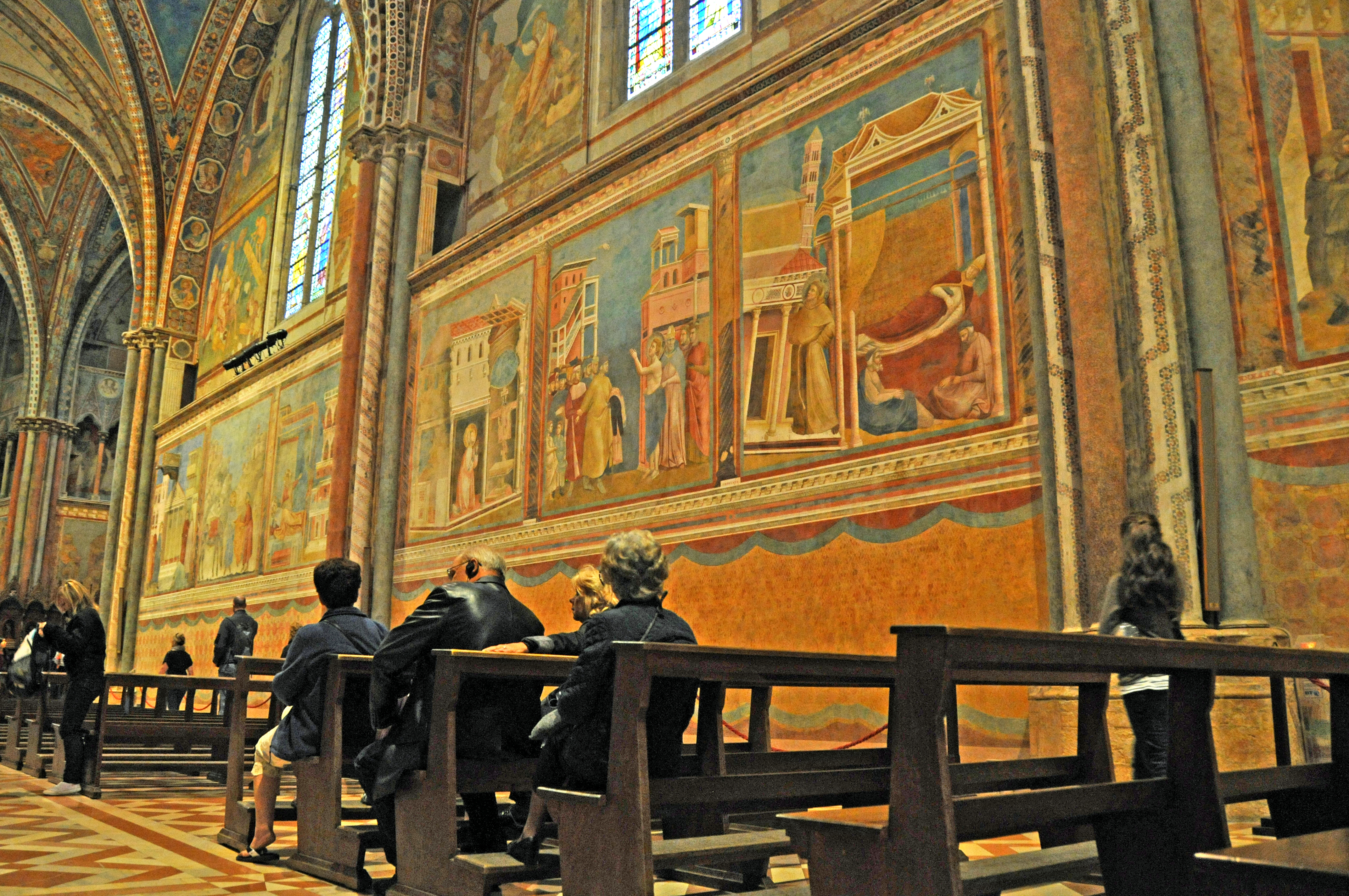 Upper Basilica in Assisi